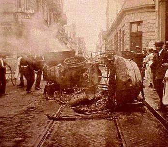 Photograph taken during the "Semana Trágica" in Argentina, in 1919.